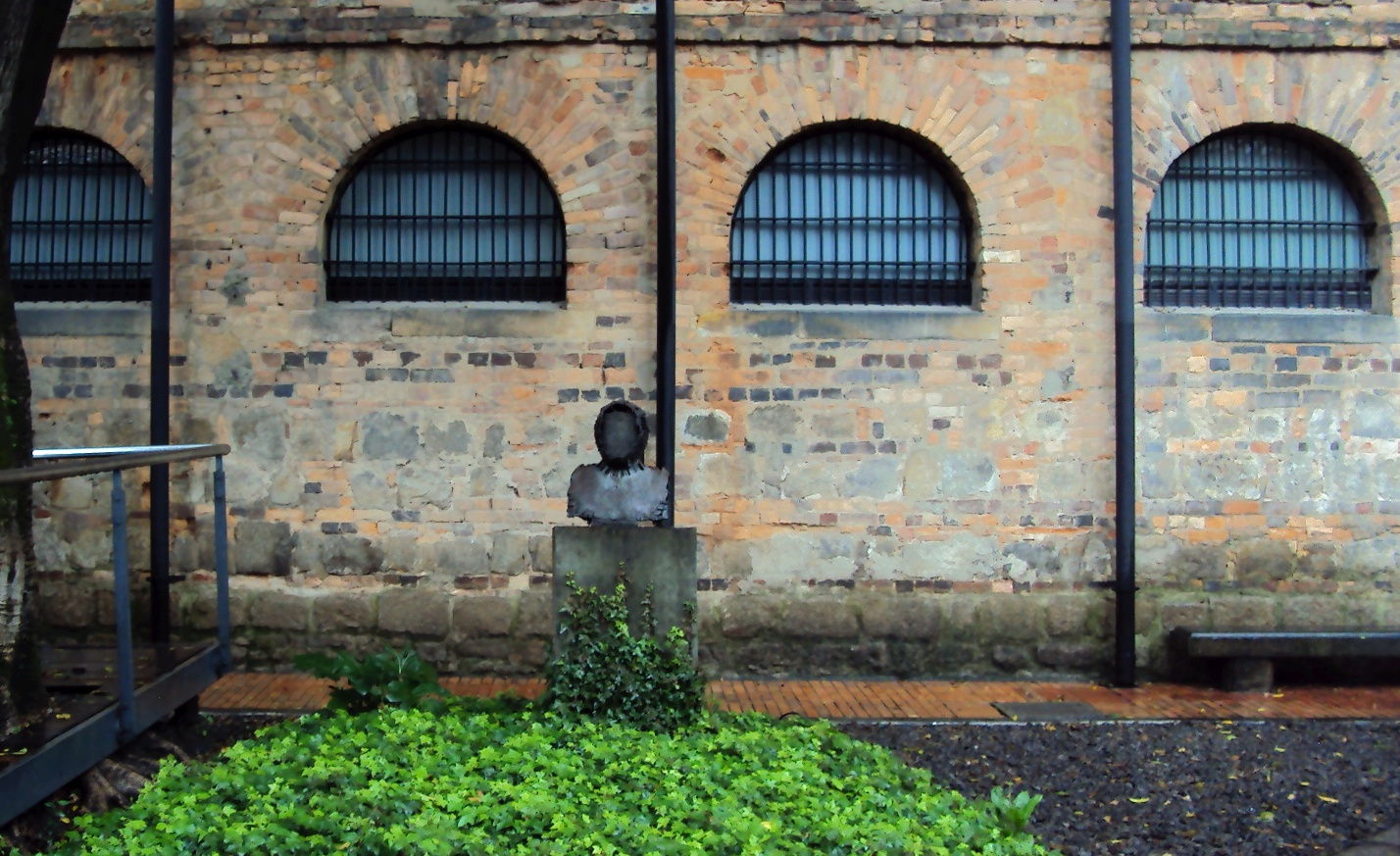 A bronze sculpture by Jim Amaral in the sculpture gardens of the Museo Nacional